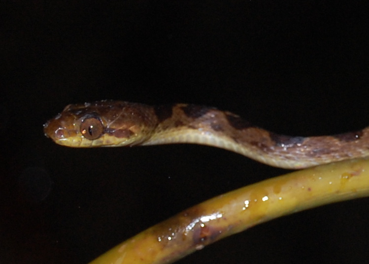 Leptodeira septentronalis (Northern cat-eye snake) spotted on a night walk in the Osa Peninsula, Costa Rica. (Our guide told us that they feed on the red-eyed tree frog (Agalychnis callidryas) and its eggs, and quickly found such a frog nearby.)